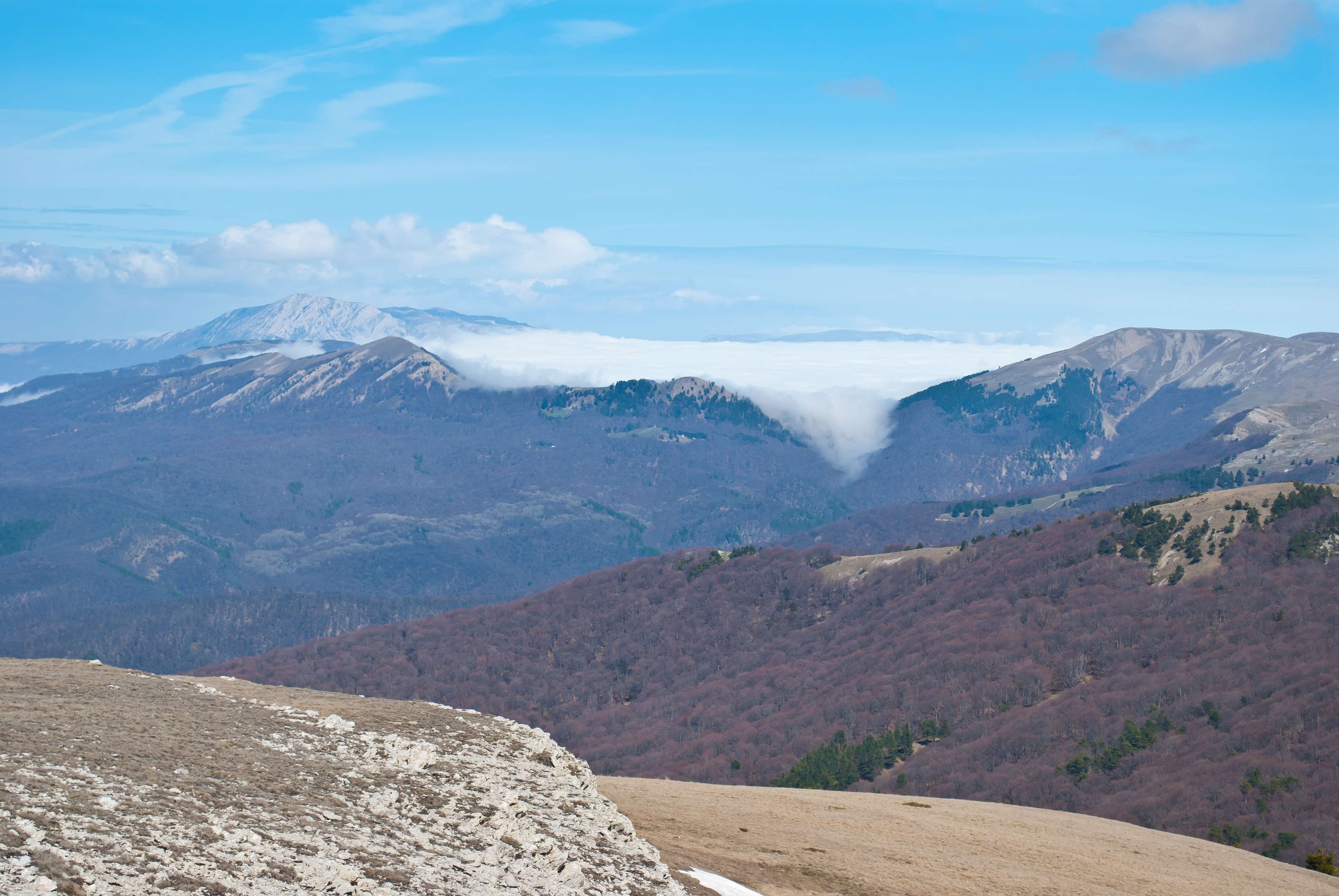 View on the Chuchel pass from the mount Kemal-Egerek. Far on the left side there is Eklizi-Burun, more closely and more to the right - the mount Big Chuchel, more to the right - Small Chuchel, more to the right - the Chuchel pass (the clouds runs over it). In the right part of the photo Babugan-Yayla is seen.